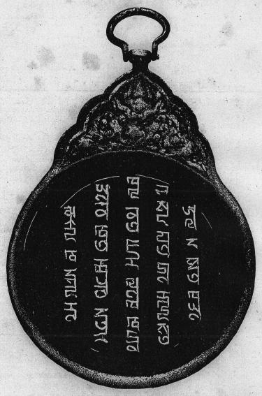 Yuan Dynasty Official Pass (The "Vinokurov Tablet"). Inscription in Mongolian ('Phags-pa script) reads: ꡏꡡꡃ ꡁ ꡊꡠꡃ ꡘꡞ ꡗꡞꡋ ꡁꡟ ꡅꡟꡋ ꡊꡟꡘ ꡢꡖ ꡋꡟ ꡆꡘ ꡙꡞꡢ ꡁꡦꡋ ꡠ ꡛꡦ ꡎꡟ ꡚꡞ ꡘꡖꡦ ꡛꡟ ꡝꡙ ꡊ ꡉꡟ ꡢꡗꡞ (mong kha deng ri / yin khu chun dur / q·a nu jar liq khėn / e se bu shi r·ė su / 'al da thu qayi [möngke tengri-yin küčün-dür qaɣan-u ǰarliɣ ken ese bišire-esu alda-tuɣai]), meaning "By the power of eternal heaven, [this is] an order of the Emperor. Whoever does not show respect [to the bearer] will be guilty of an offence".